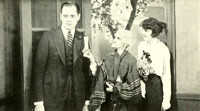 Still from the American film Get-Rich-Quick Wallingford (1921) with Sam Hardy, unknown actress, and Doris Kenyon, on page 128 of Peter Milne, Motion Picture Directing; The Facts and Theories of the Newest Art (1922).